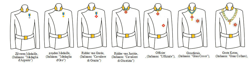 Reale e militare ordine di San Giorgio della Riunione Order of Saint George and the Reunion Two Sicilies 1819 Protocol